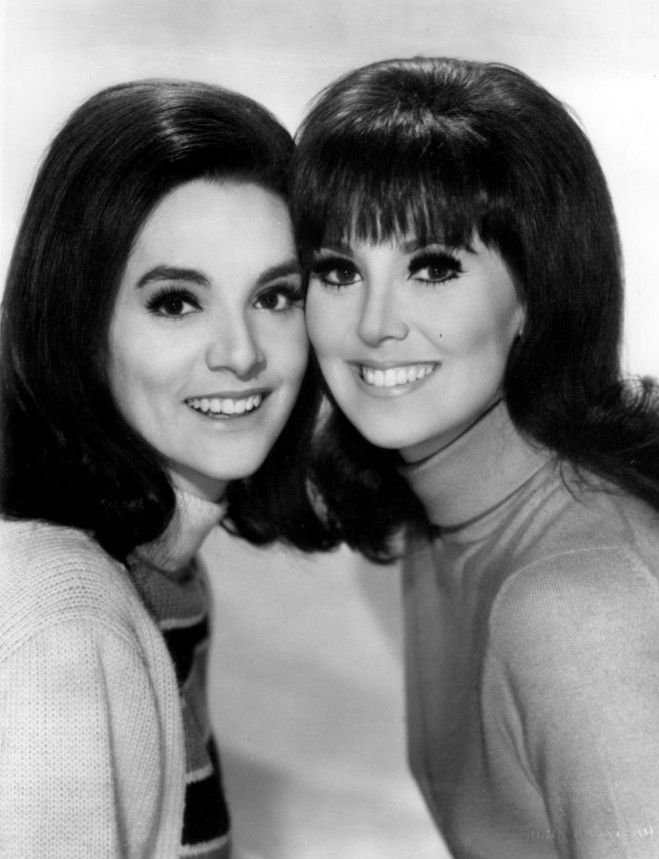 Photo of sisters Terre and Marlo Thomas from an episode of That Girl.